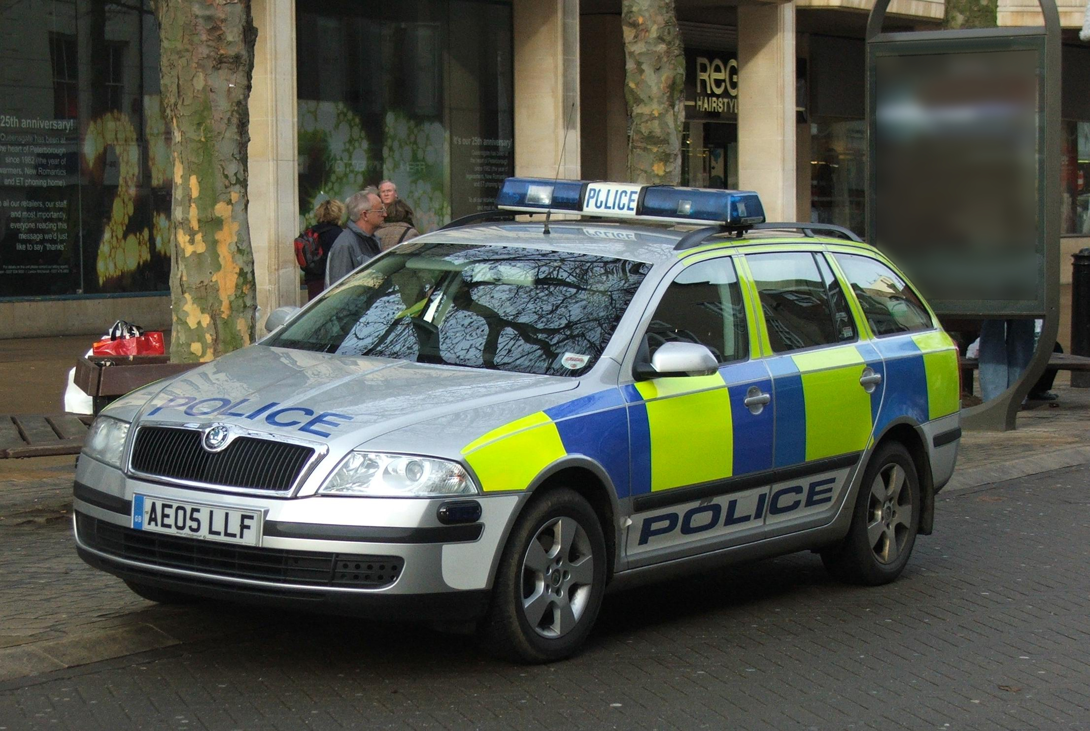 Police car Škoda Octavia in Cambridgeshire in England, UK in December 2007.